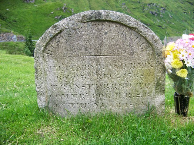 The memorial stone at the Rest and be thankful